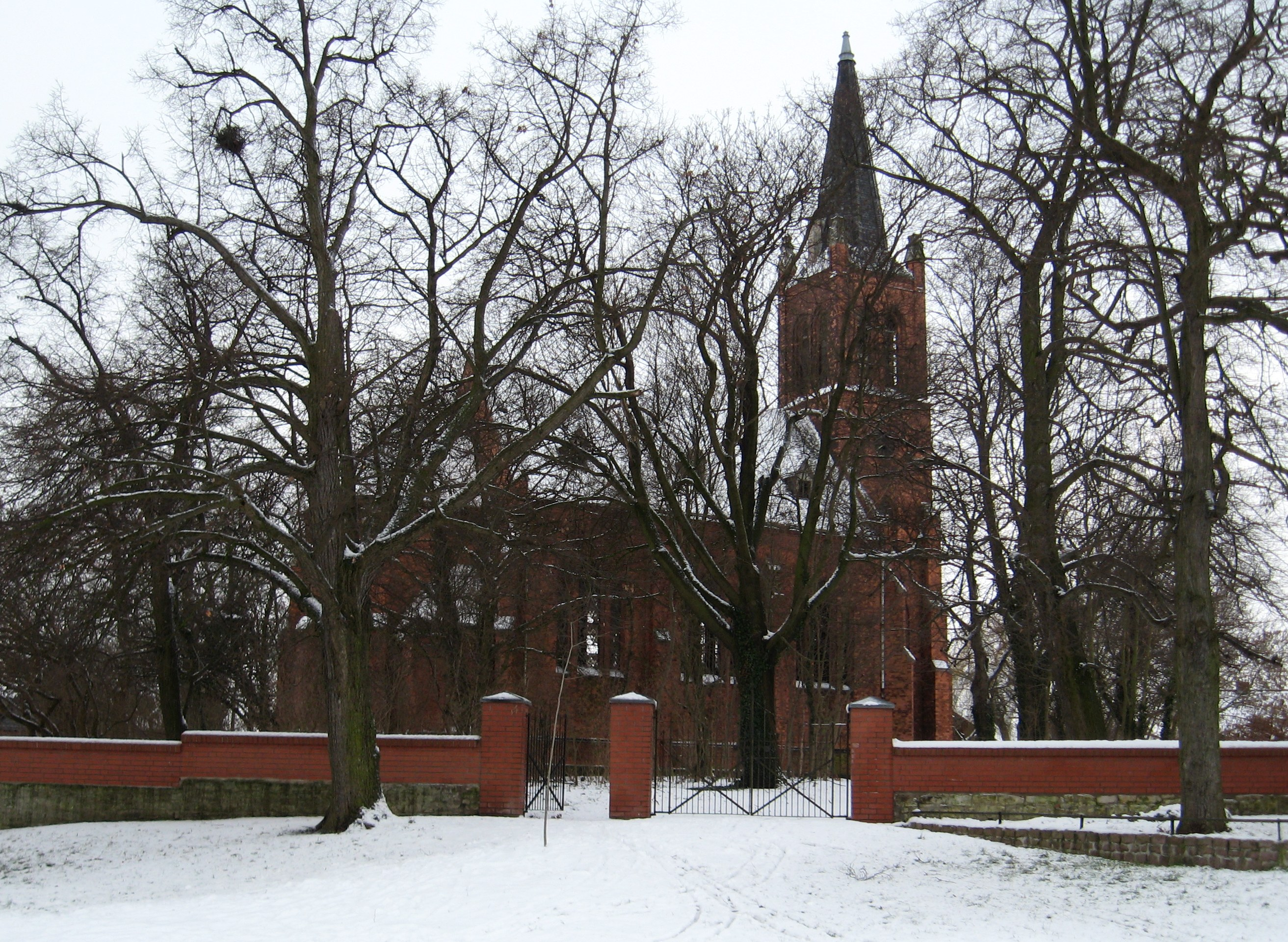 Church in Thurau, Germany.